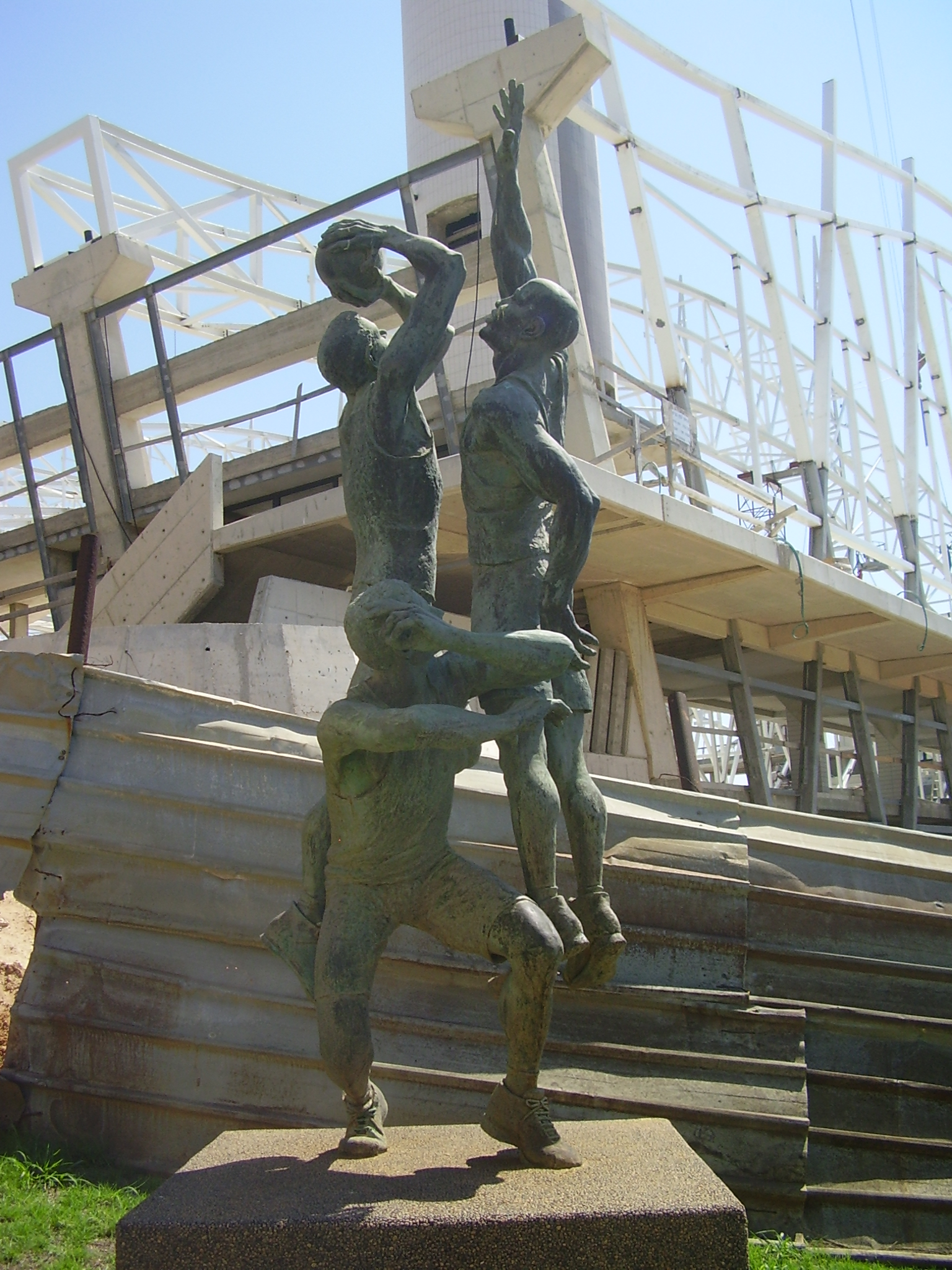 Basketball players sculpture in Wingate Institute